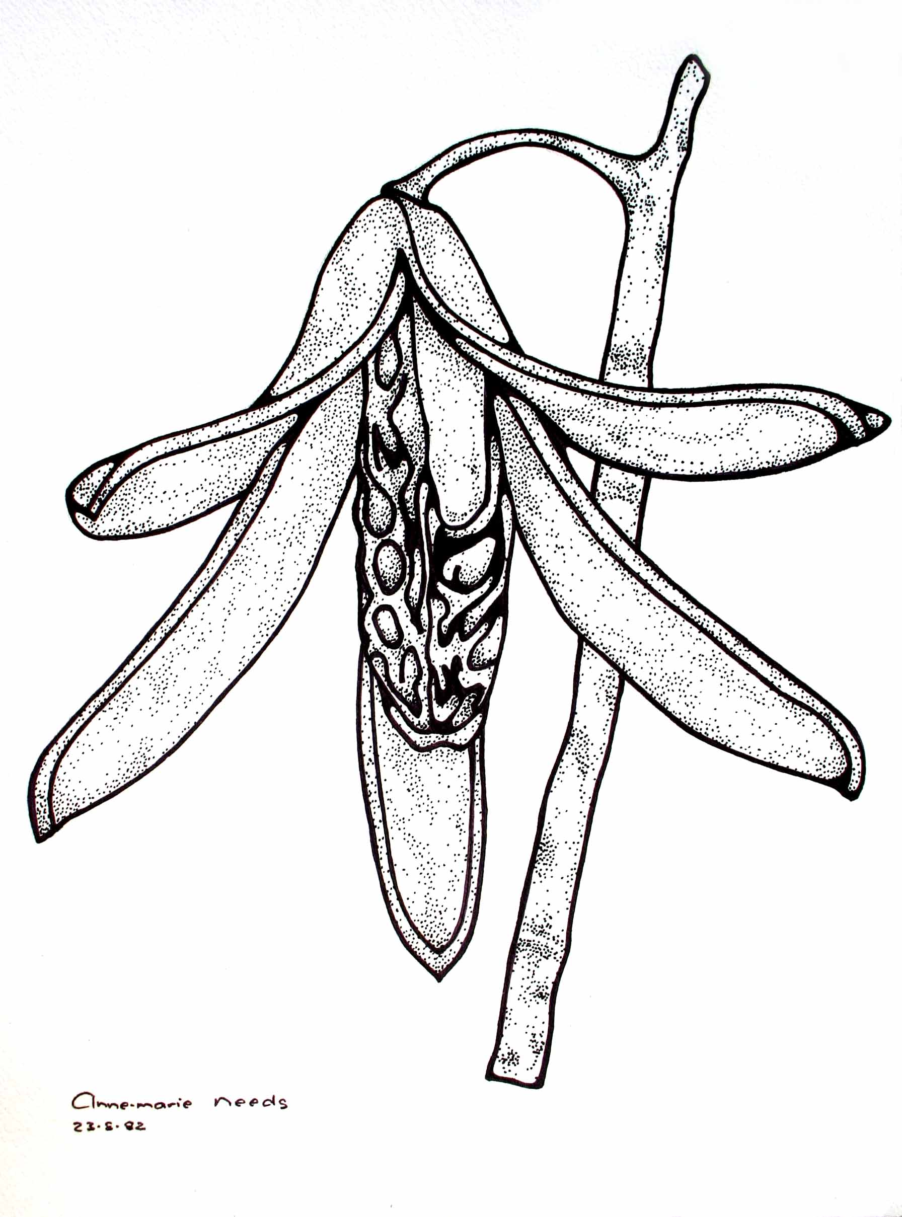 Drawing of Entandrophragma caudatum fruit - this image commissioned by myself and now owned by me with copyright